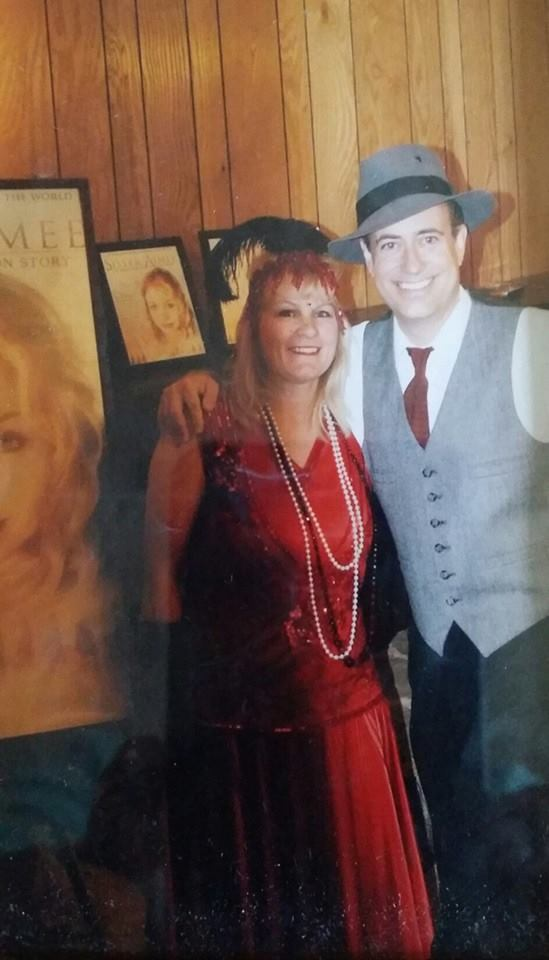 "Sister Aimee," the first feature dramatic film on the life of Aimee Semple McPherson, premieres in Hollywood. Picture are the period piece film's writer-director Richard Rossi, and his wife Sherrie in 1920's attire.